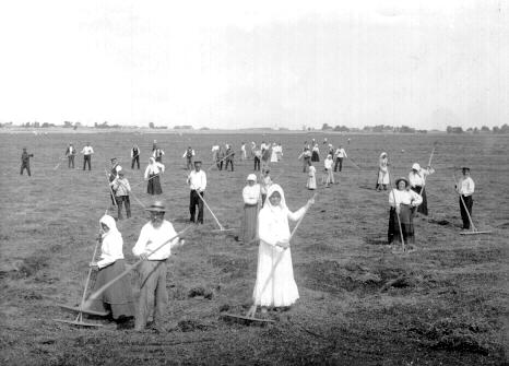 Hay-making in Estonia.